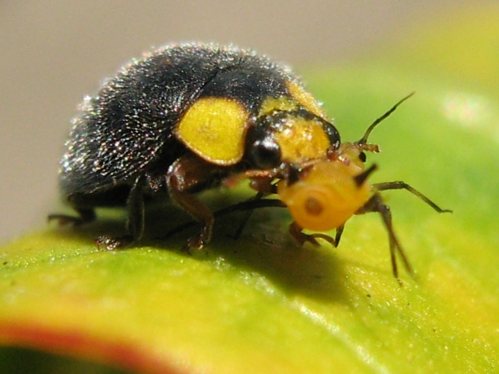 Yellow Shouldered Ladybird (Apolinus lividigaster) with milkweed aphid (Aphis nerii)